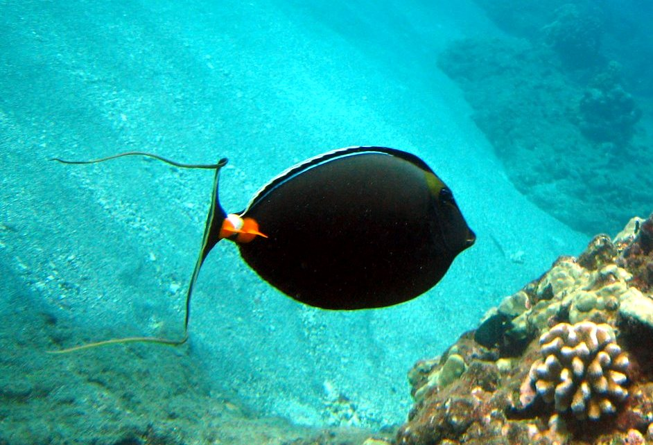 Also known as the naso tang or orangespine unicornfish. Picture was taken in Hanuma Bay, Oahu, Hawaii.